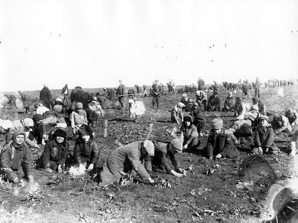 Children are digging up frozen potatoes in the field of a collective farm. Udachne village, Donec’k oblast